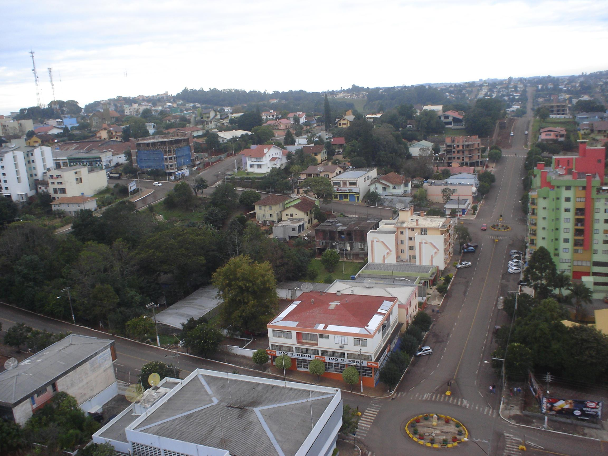 São Miguel do Oeste, Santa Catarina, Brazil